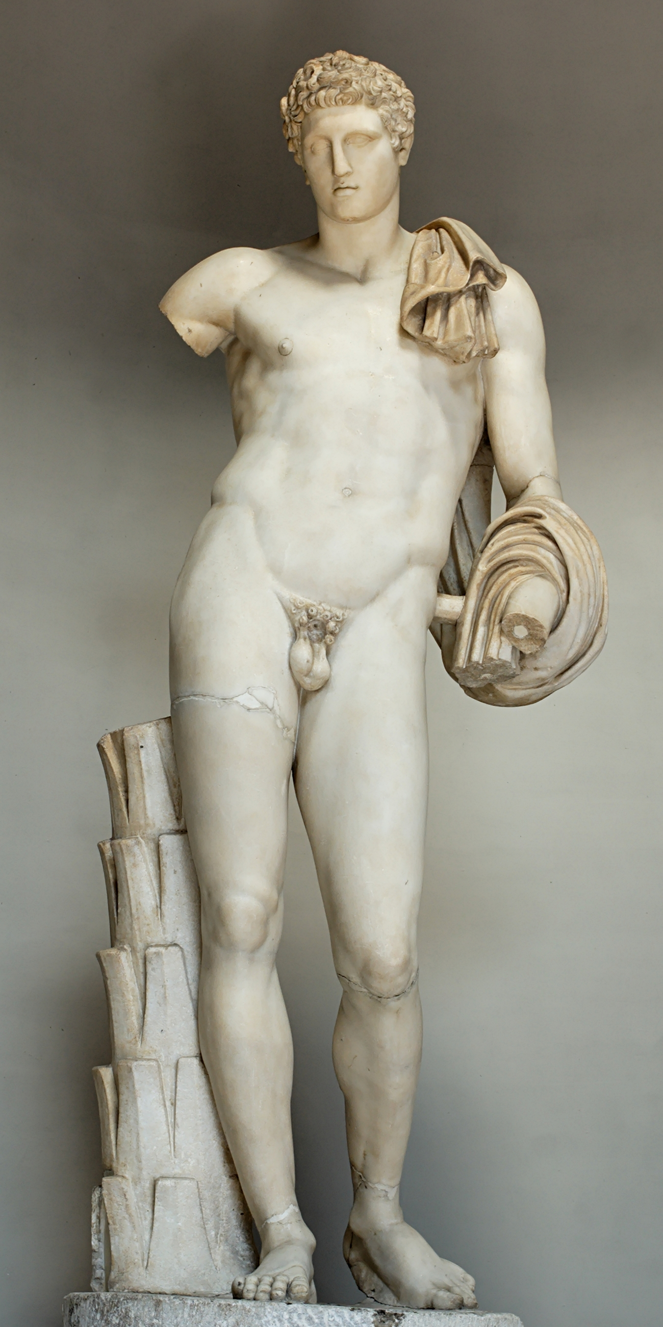 So-called “Belvedere Antinous”, actually a statue of Hermes of the Andros-Farnese type. Marble, Roman artwork, Hadrian's era, copy or a Greek bronze original of the 4th century BC. Found near the castle Sant'Angelo.